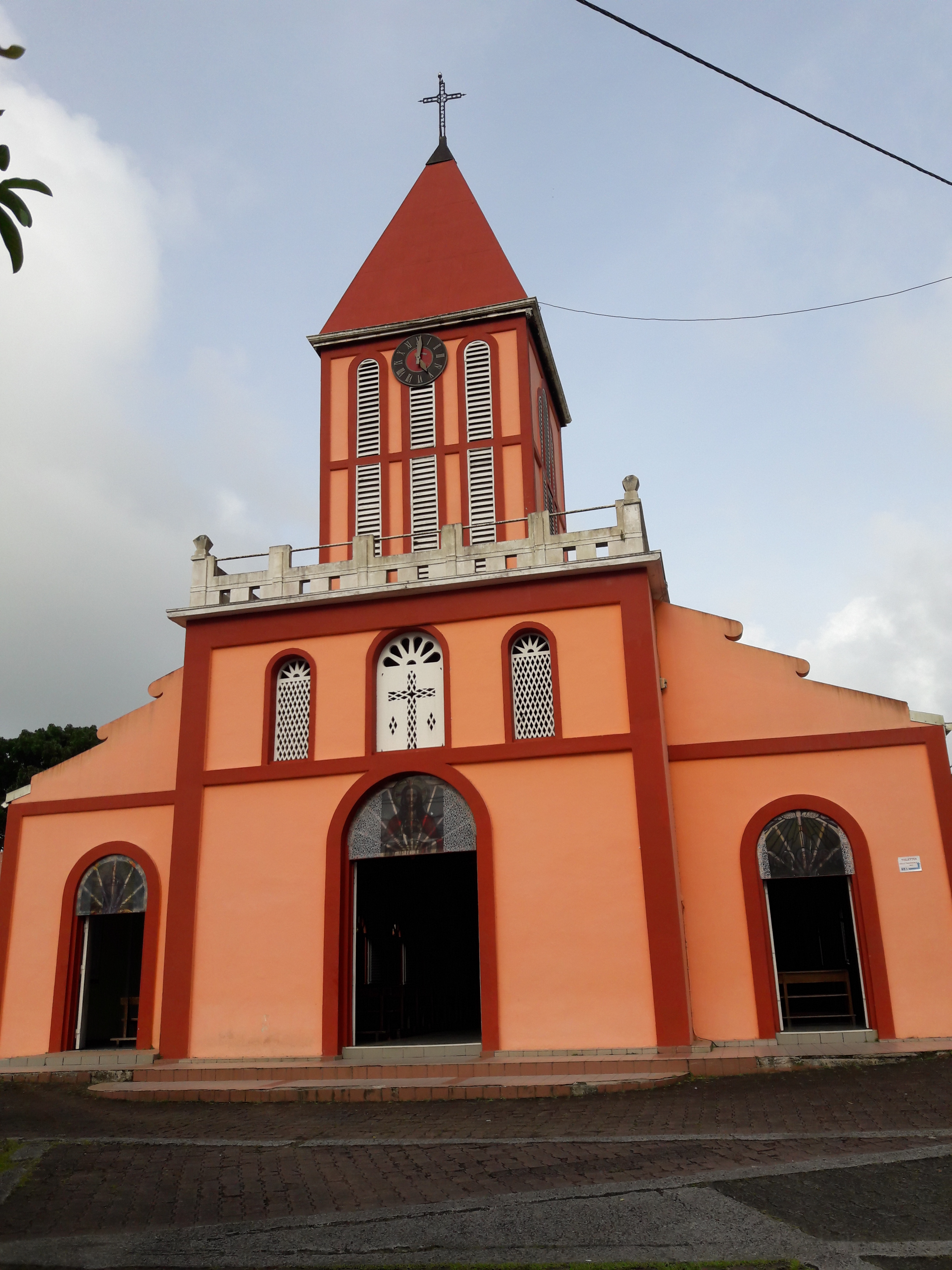 Saint Joan of Arc Catholic Church in the village of Vert-Pré (town of Le Robert, Martinique)